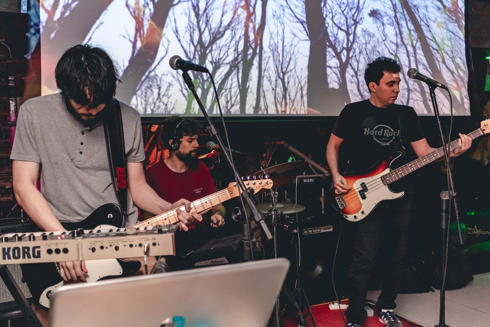 WARI live on Old Port